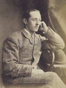 Edward Tylecote, 3 1/2" x 2 1/2" (9cm x 6cm) vintage photograph mounted to card clipped from album page. From a small collection of images relating to the Royal Military Academy at Woolwich in the 1870s.